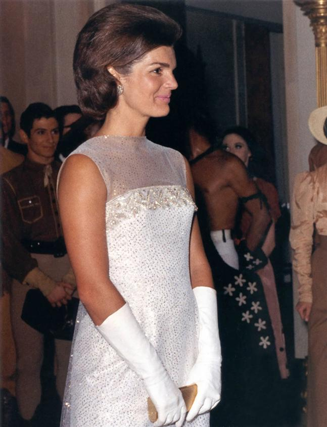 Jacqueline Kennedy after State Dinner, 22 May 1962 White House, Cross Hall